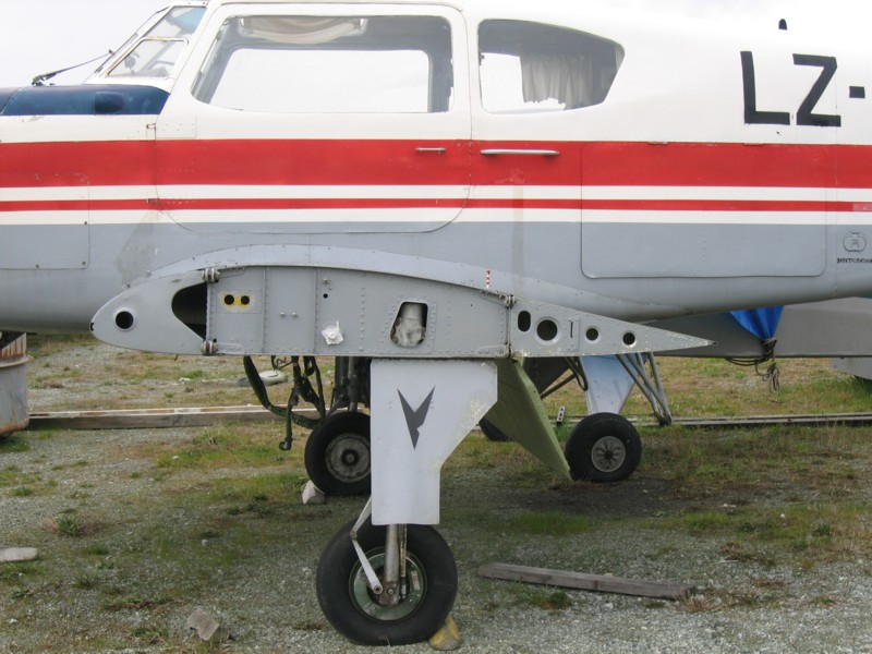 Clark Y airfoil, Clark Y Profil, Clark Y Tragflächenprofil